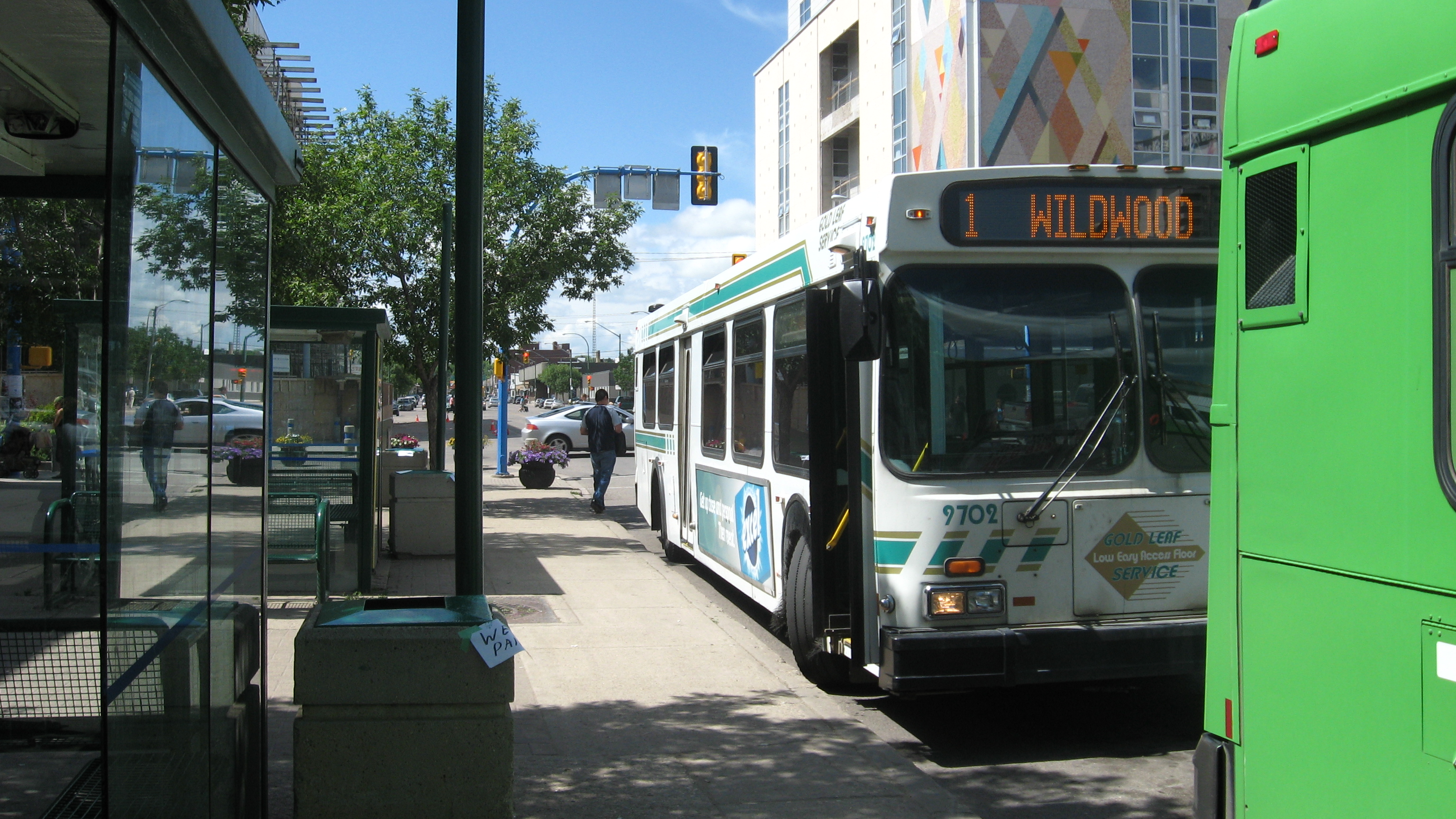 Saskatoon Transit System downtown terminal, 23d Street, looking toward Second Avenue